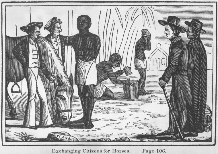 Exchanging citizens for horses. (1834)